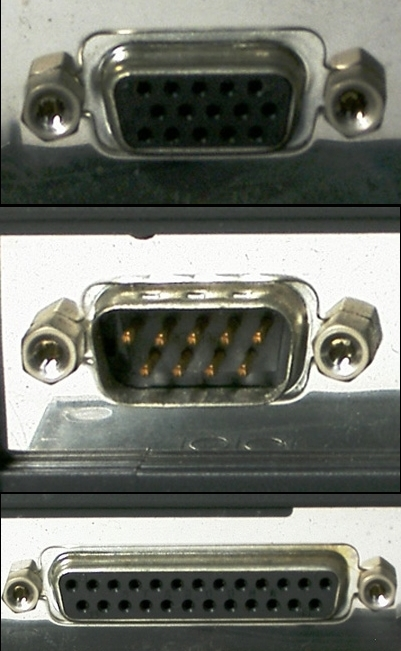 hardware VGA-RS-232C-Parallelbus